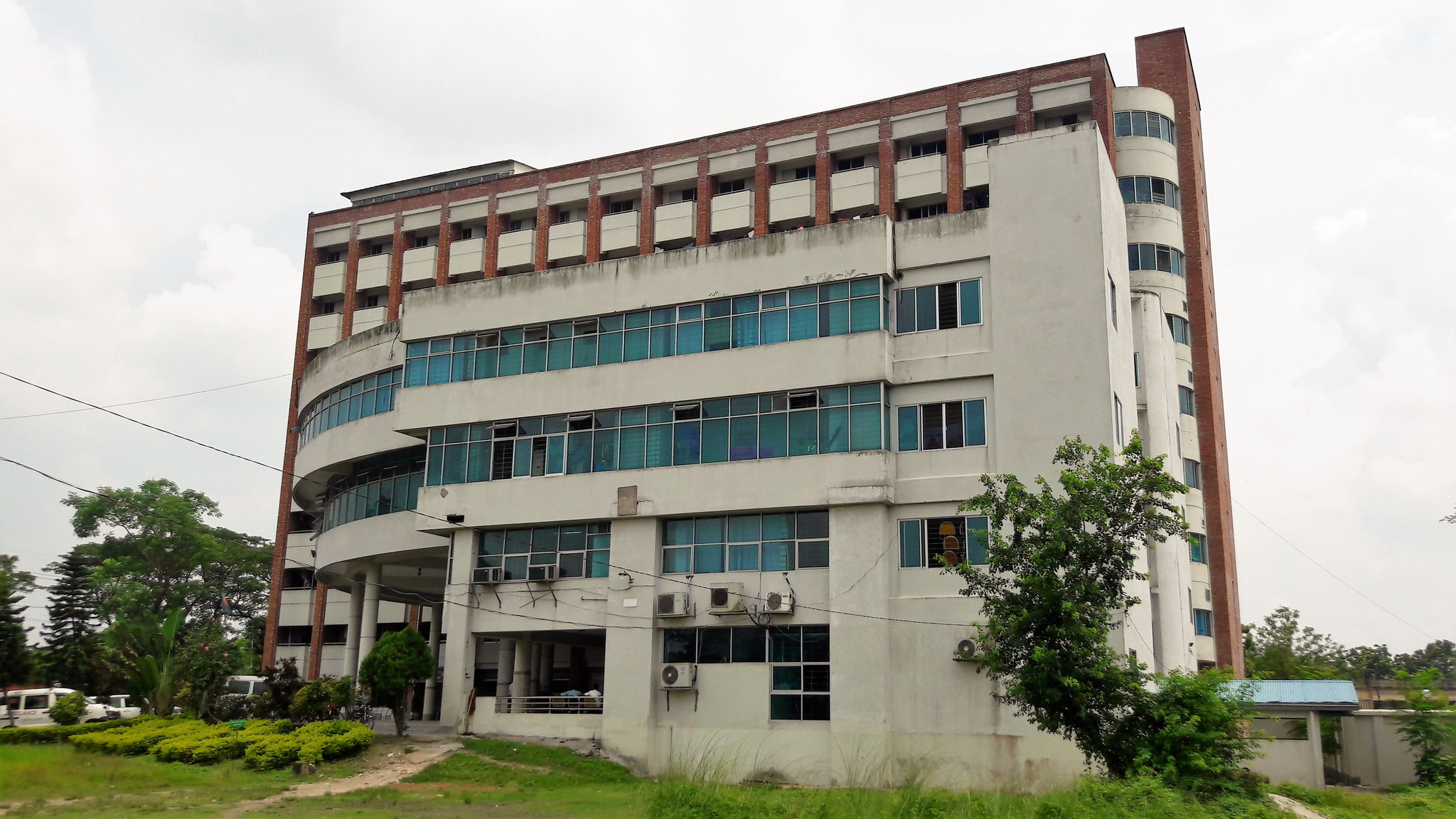 Islami Bank Medical College located in Rajshahi. In short, it is known as IBMC. In 2003, it has started its journey with 50 students.